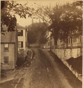 Leyden Street--first street laid out by the Pilgrims in Plymouth, Massachusetts in 1620.